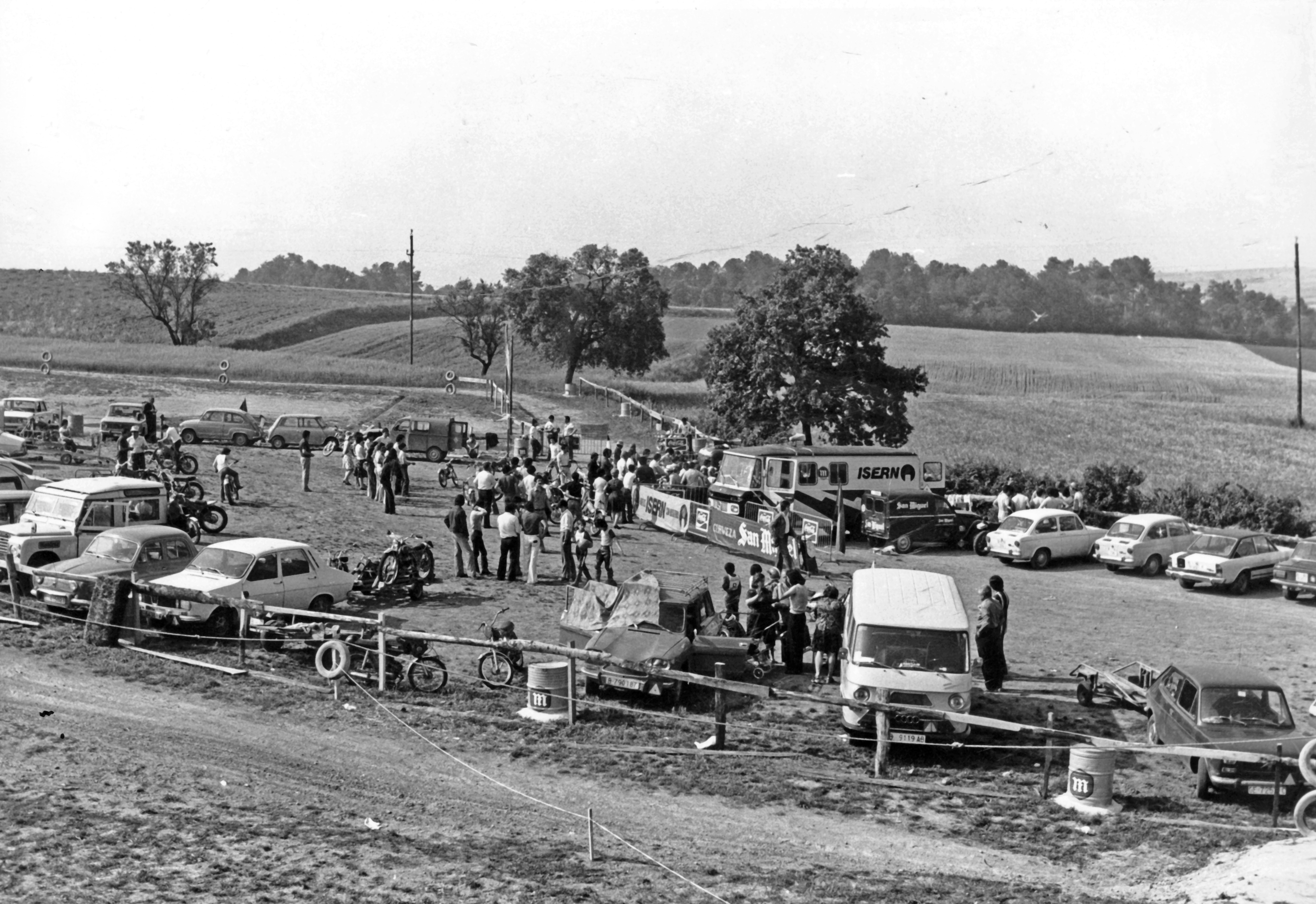 The parking at Circuit de Gallecs during a children's motorcycle course